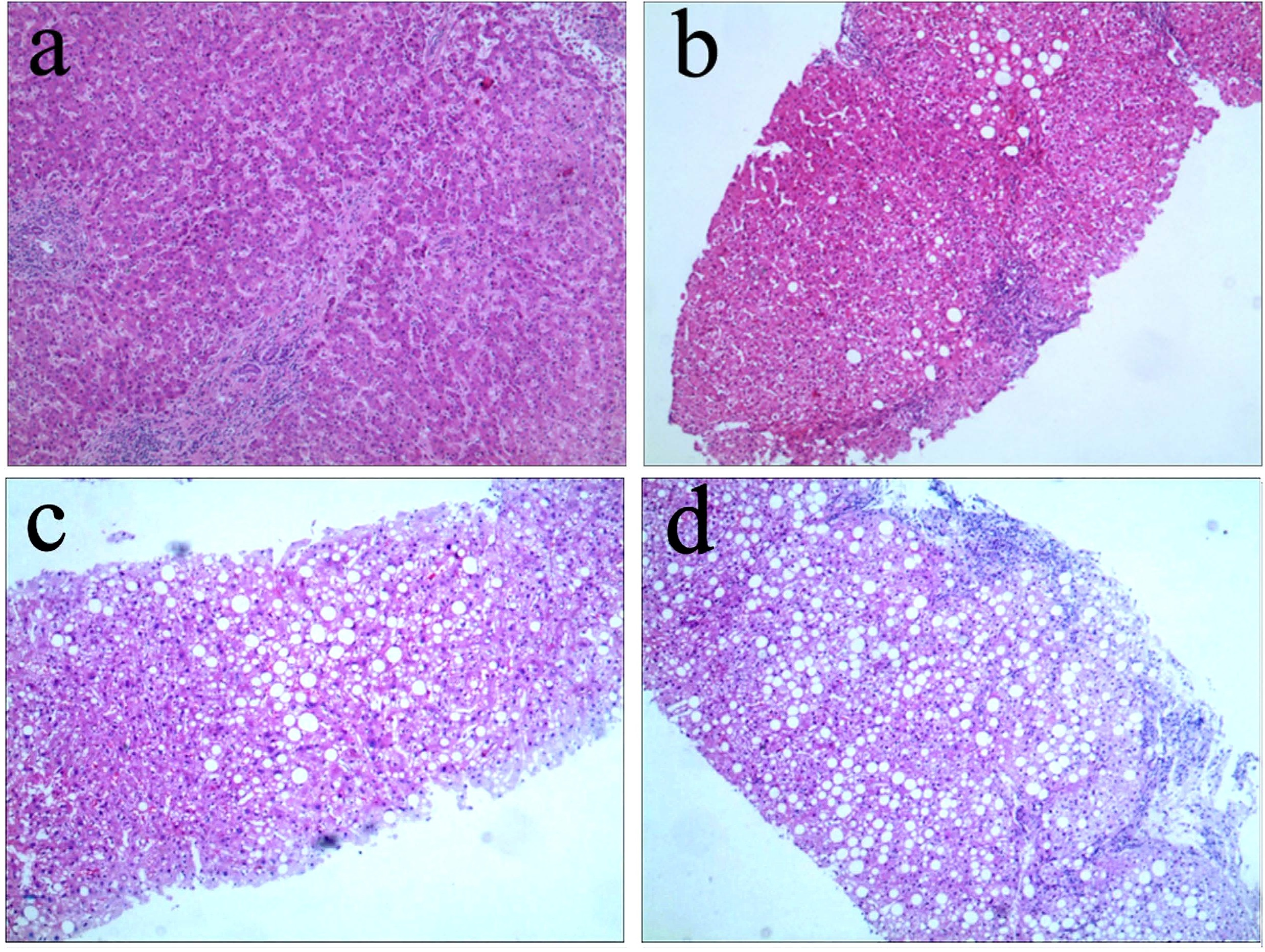 Pathological characteristics of hepatic steatosis in patients with hepatitis B virus infection (HE staining). (a) None steatosis (× 200). (b) Mild steatosis (× 200). (c) Moderate steatosis(× 200). (d) Severe steatosis (× 200).